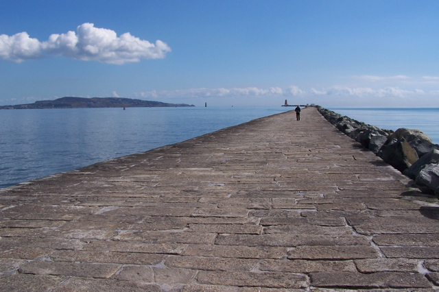 South Bull, Poolbeg, Dublin. Ireland The South Bull Wall ( another word for strand, or sandbank) was constructed in the 1753 (after a particularly bad winter), to protect shipping coming into Dublin. as the bay was famously wild, silted, and difficult to cross. The Poolbeg Lighthouse at the end of the Bull Wall was lit for the first time on 29 September 1767. It replaced a floating light that had been placed at the end of the wall to warn ships.